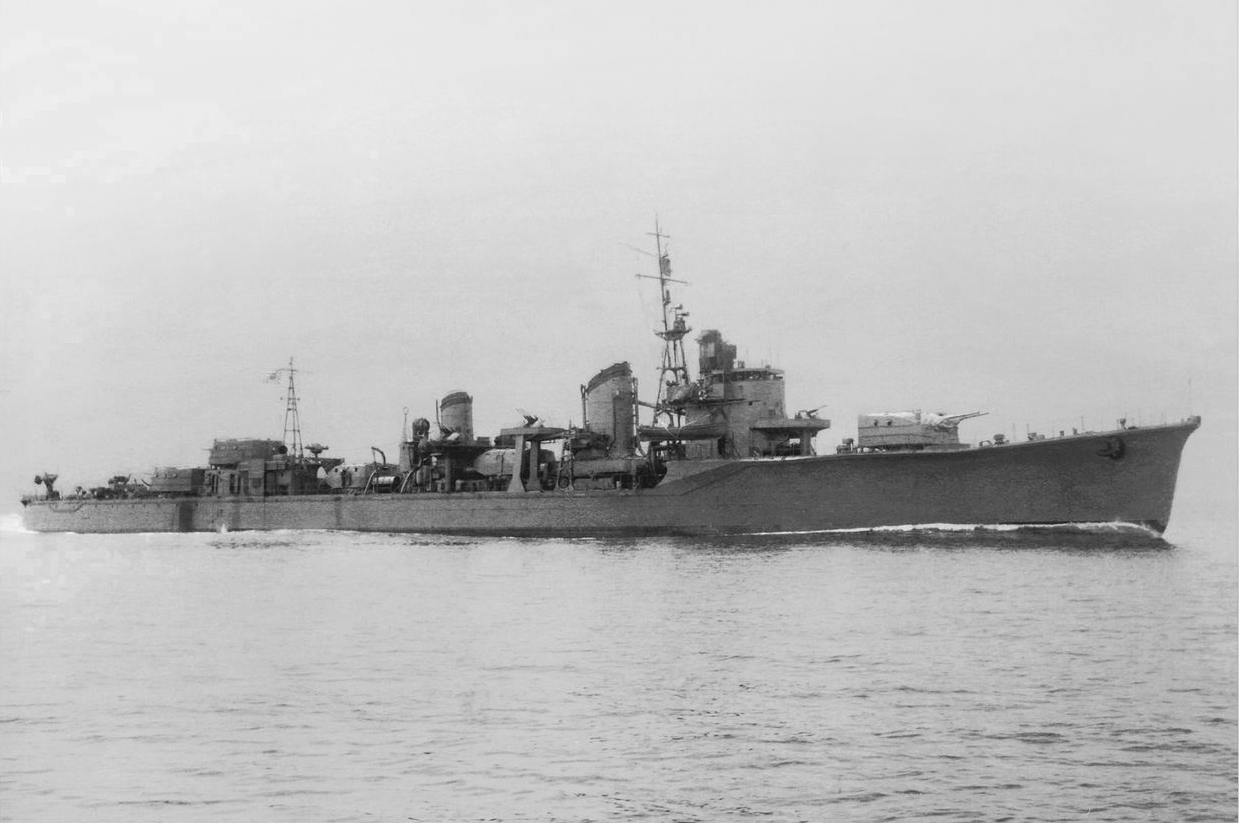 Japanese Destroyer "Kiyoshimo" (Yugumo-class), off Uraga.